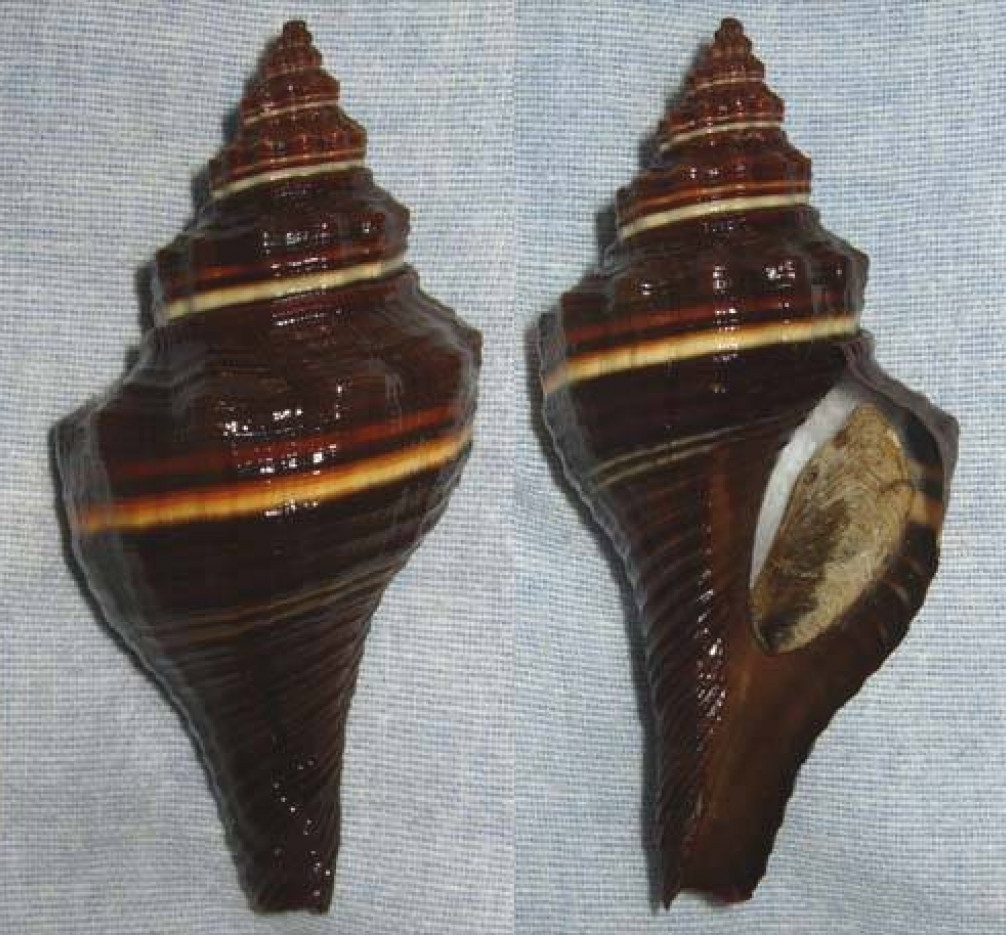 Upper side (left) and underside (right - with operculum) seashell of Pugilina tupiniquim Abbate & Simone, 2015[1] from Brazil. Natal city. Rio Grande do Norte federated state. Lighter and biggest image. A species from the western Atlantic Ocean, mainly in mangrove regions. Formerly included in the species Pugilina morio (Linnaeus, 1758)[2].